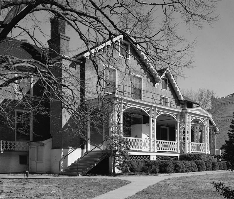 U.S. Soldiers Home, Corn Rigs (Lincoln Cottage), Rock Creek Church Road & Upshur Street Northwest, Washington, D.C. Main façade, oblique view. Now the centerpiece of President Lincoln and Soldiers' Home National Monument. Approximate coordinates: 38°56′30″N 77°0′42″W / 38.94167°N 77.01167°W.